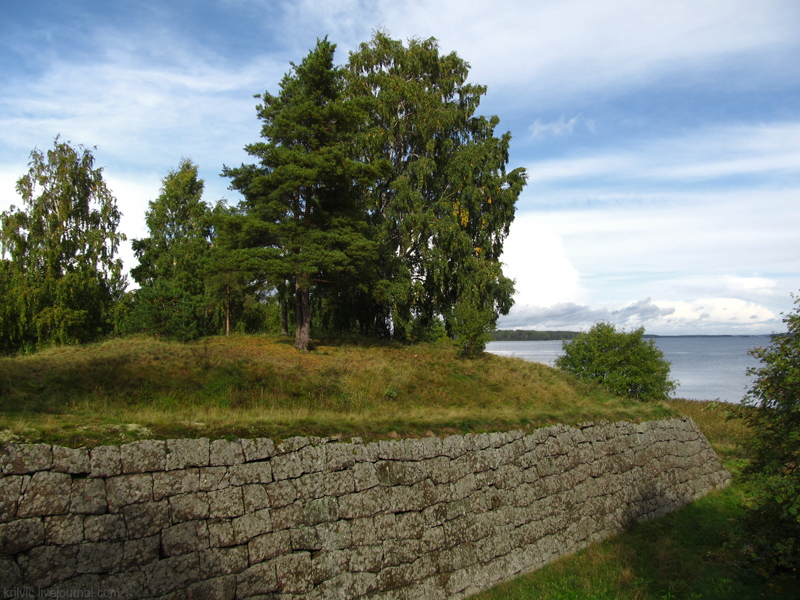 Тронгзунд